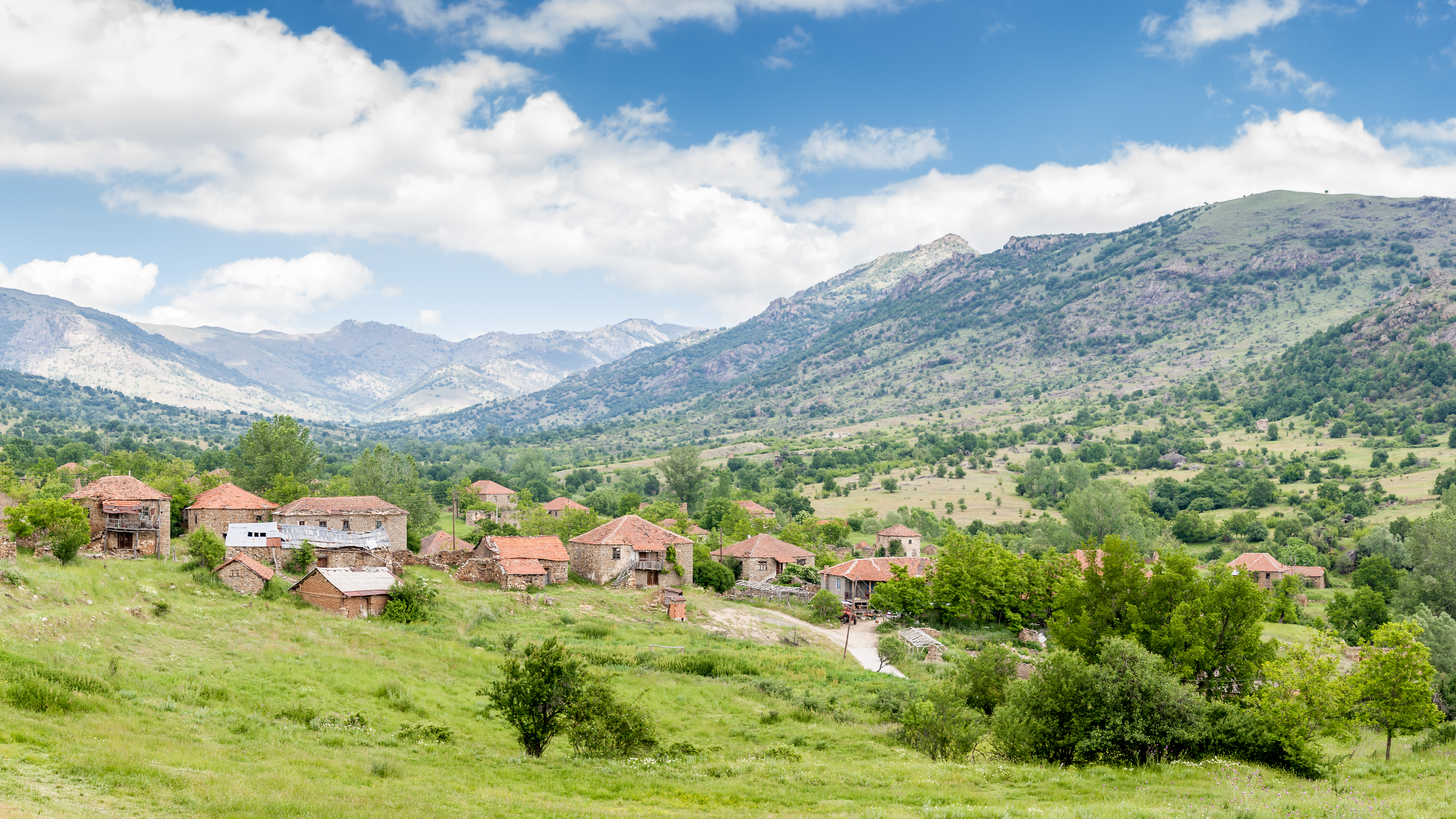 Panoramic photography of the village Kalen